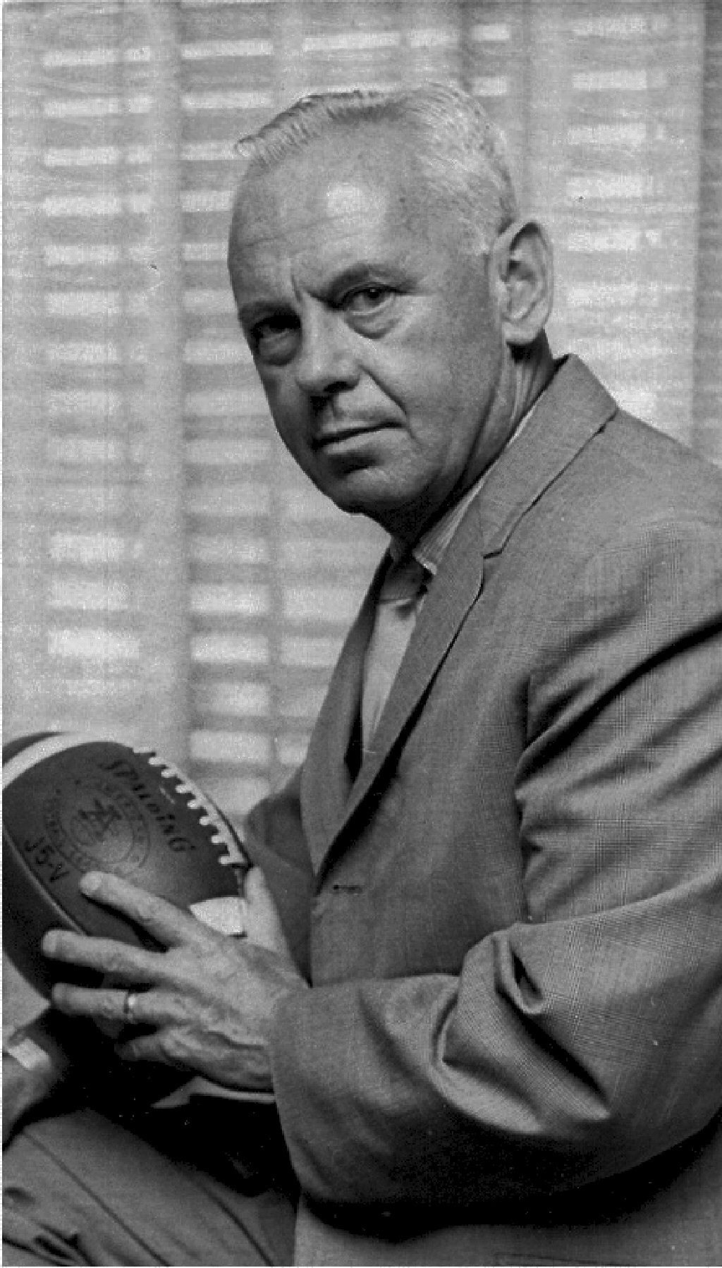 Milt Woodard, circa July 25,1966